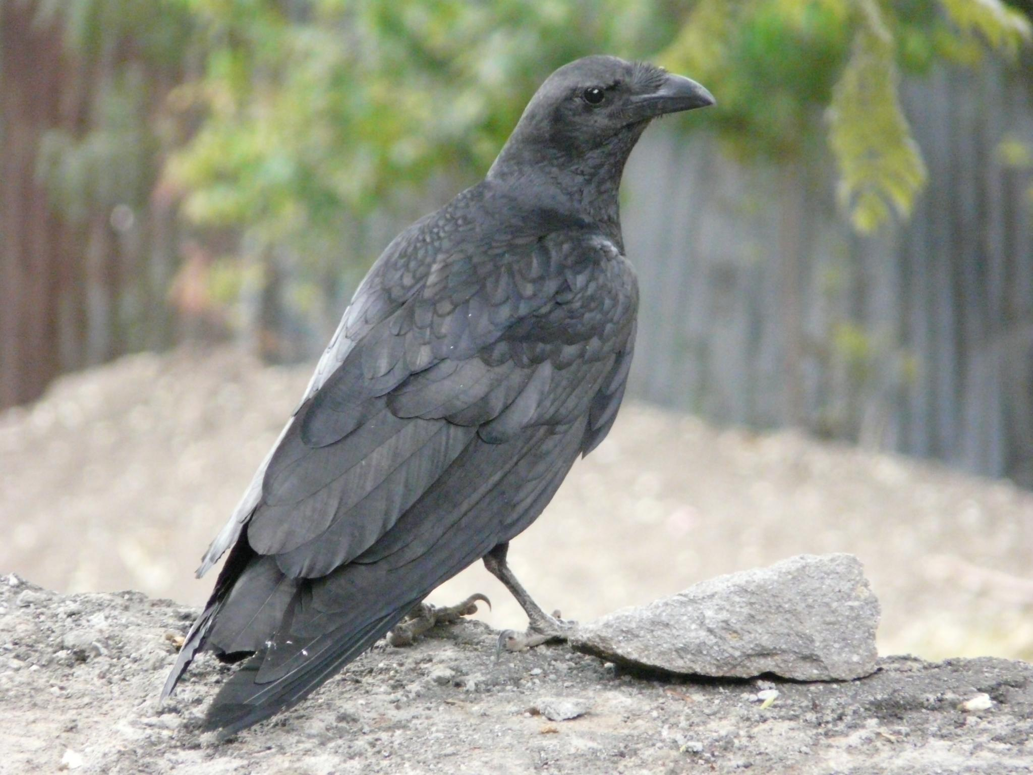 A juvenile Fan-tailed Raven in Ethiopia. A young bird hence the lack of a hefty bill.